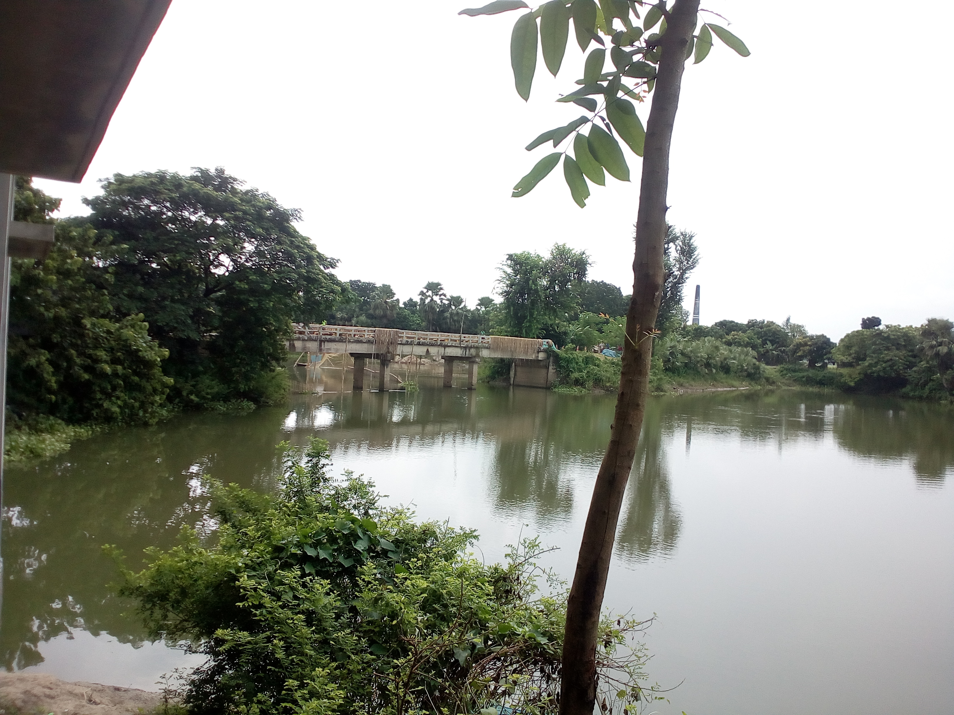 Kompo River